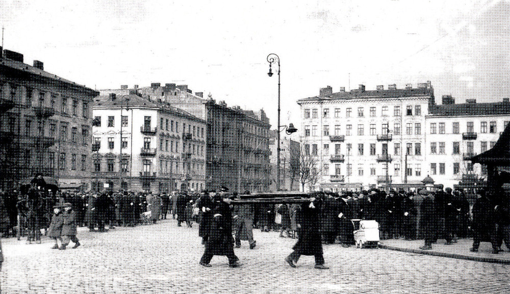 Muranowski Square in Warsaw. View to the norteastern corner of the square − Sierakowska (left) and Muranowska (right) Streets